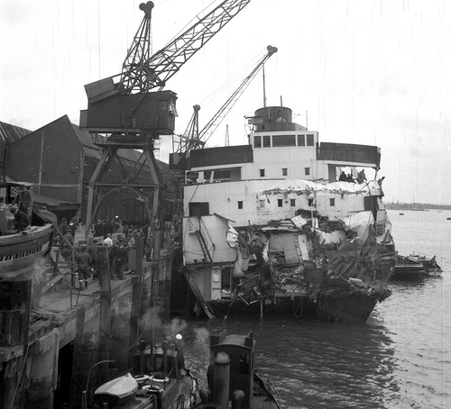 Duke Of York Entered Service 31 May 1948. Withdrawn 19 July 1963. 4325 tonnes Twin Screw Steamer. built by Harland and Wolff in 1935, as a two-funnelled steamer for the LMS Railway's Heysham-Belfast service. After service in WW2, Duke of York was rebuilt with a single funnel. She was transferred to the Harwich-Hook of Holland route, after passing from the LMS to British Railways. In May 1953, Duke of York had a serious collision, in fog, with the American freighter Haiti Victory. The bow section was sheered off completely. She reappeared with a new, more modern bow. . . She was sold to Chandris Lines, and entered service in 1964 as the Fantasia. She ran mainly on cruises in the Eastern Mediterranean, with some winter charters to religious tour groups. She was withdrawn in the mid-seventies and scrapped in Spain. .